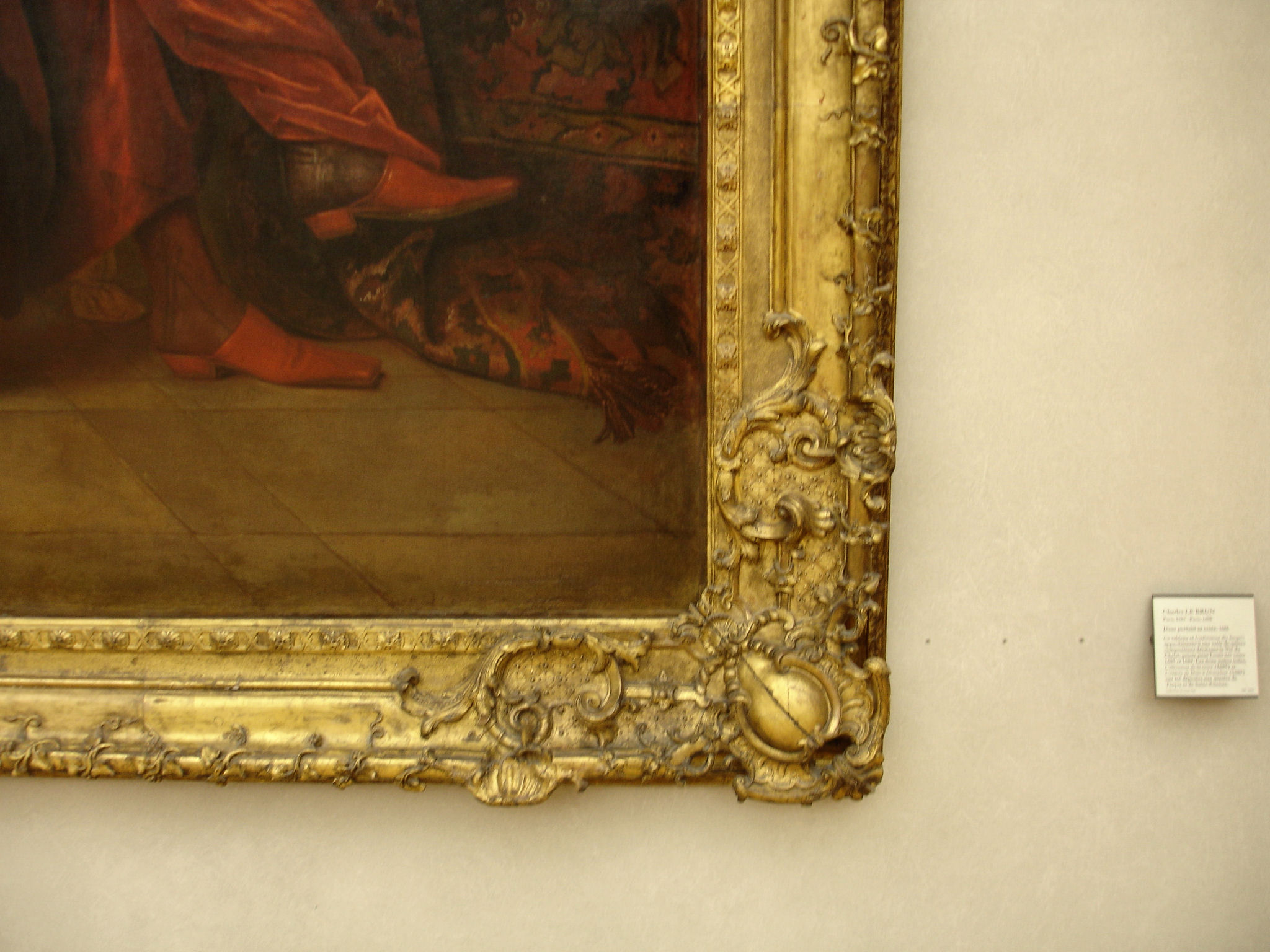 Goldened picture frame. The elaborate decoration on this frame may well be applied plaster pieces stuck to the wood beneath. Portait Louvre/Nicolas de Largillière - Portrait of Charles Le Brun